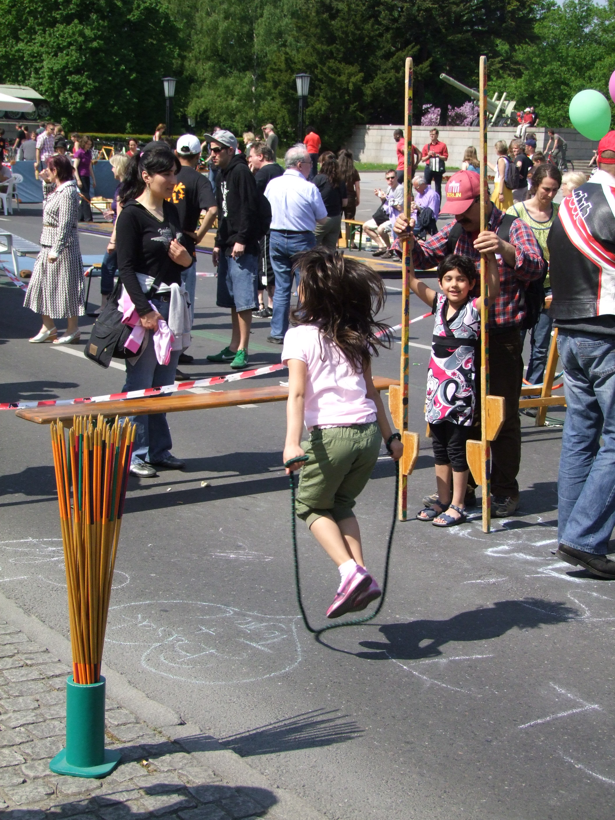 Girl playing jump rope